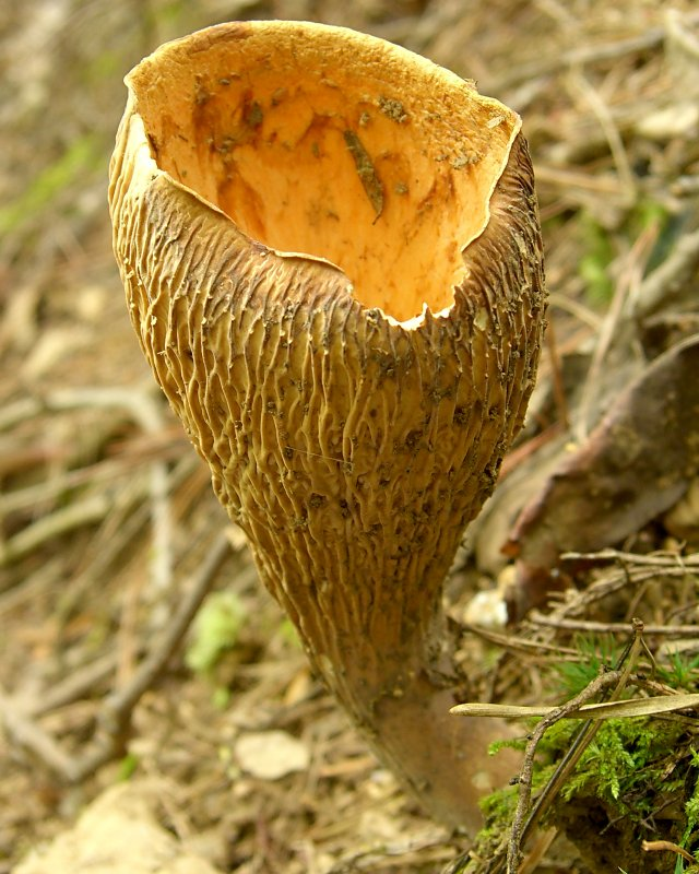 Scientific Name: Turbinellus floccosus (Schw.) Sing. Common Name: Scaly Vase Chanterelle Certainty: positive (notes) Location: Southern Appalachians; Pisgah NF; Spivey Gap